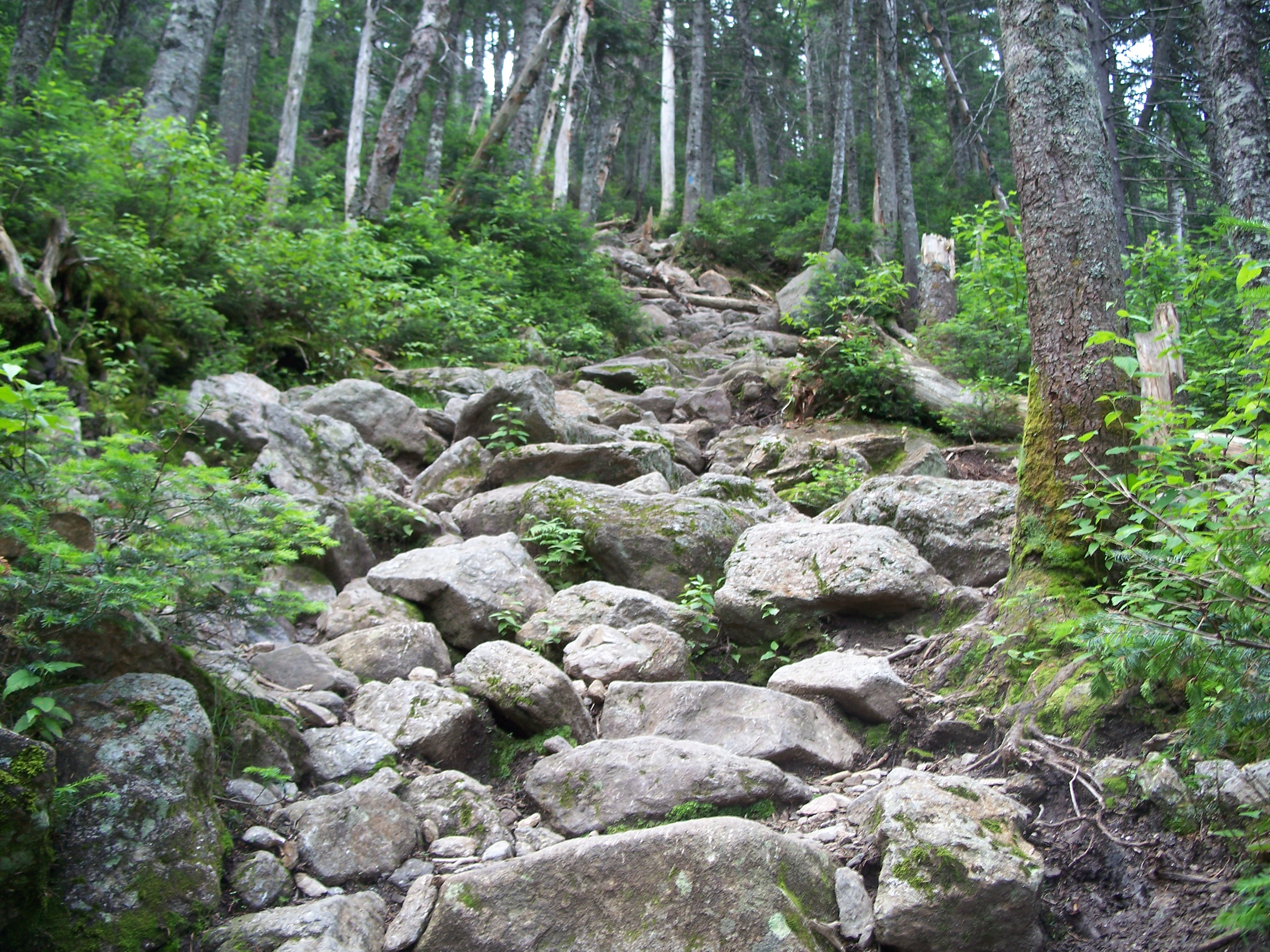 Rugged terrain on the Ammonoosuc Ravine of Mount Monroe/Lake in the Clouds in New Hampshire's White Mountains.